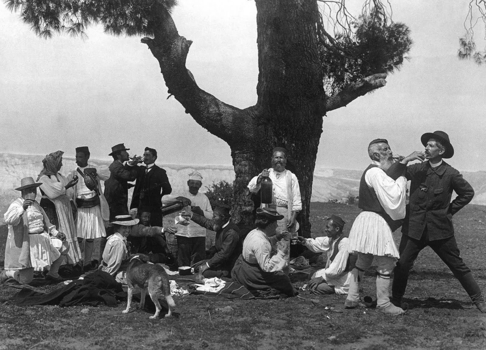 Frederic Boissonnas drinking wine at Zemeno, a village of Corinthia, circa 1903.